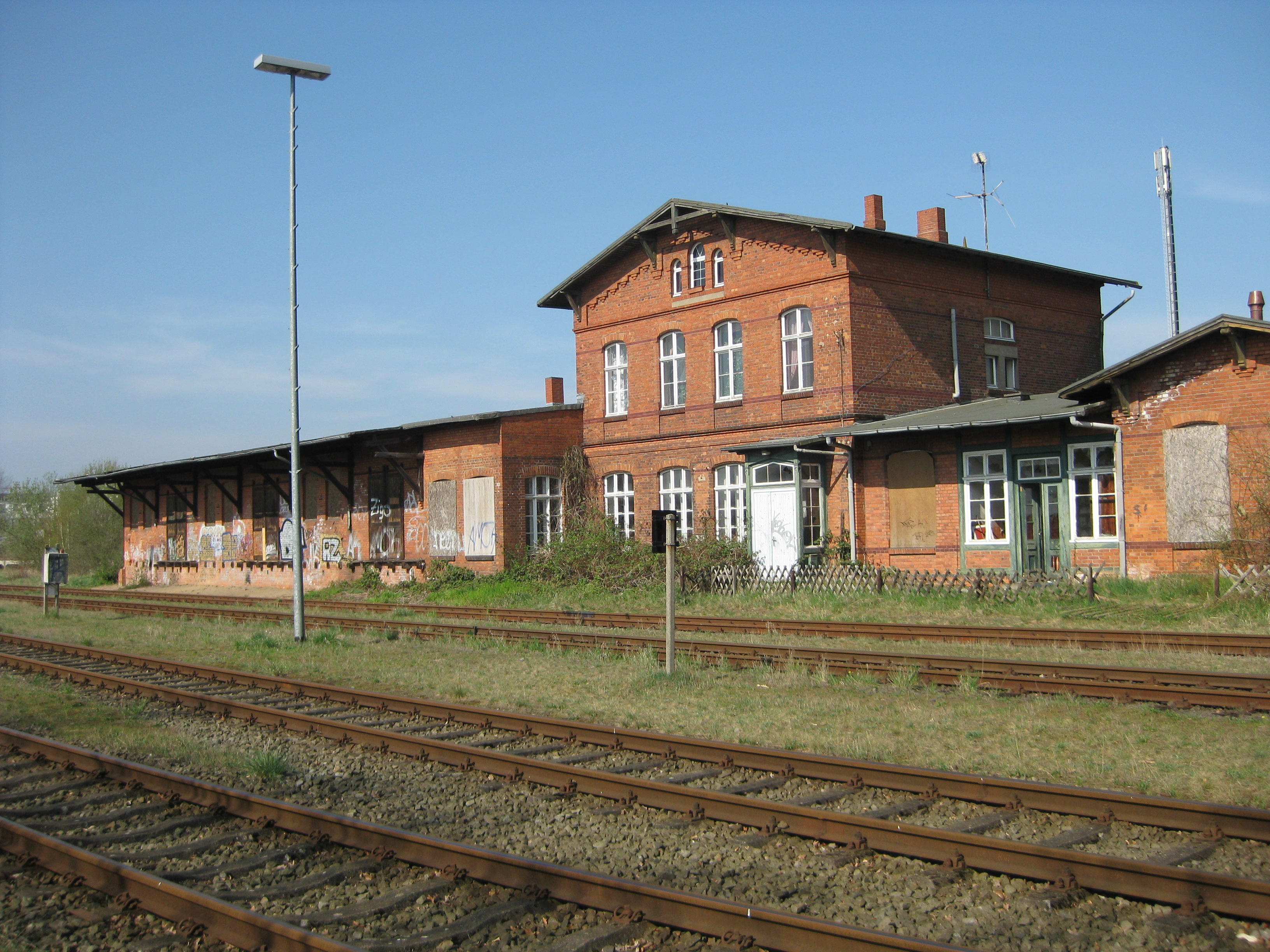 Abandoned Schlutup train station.